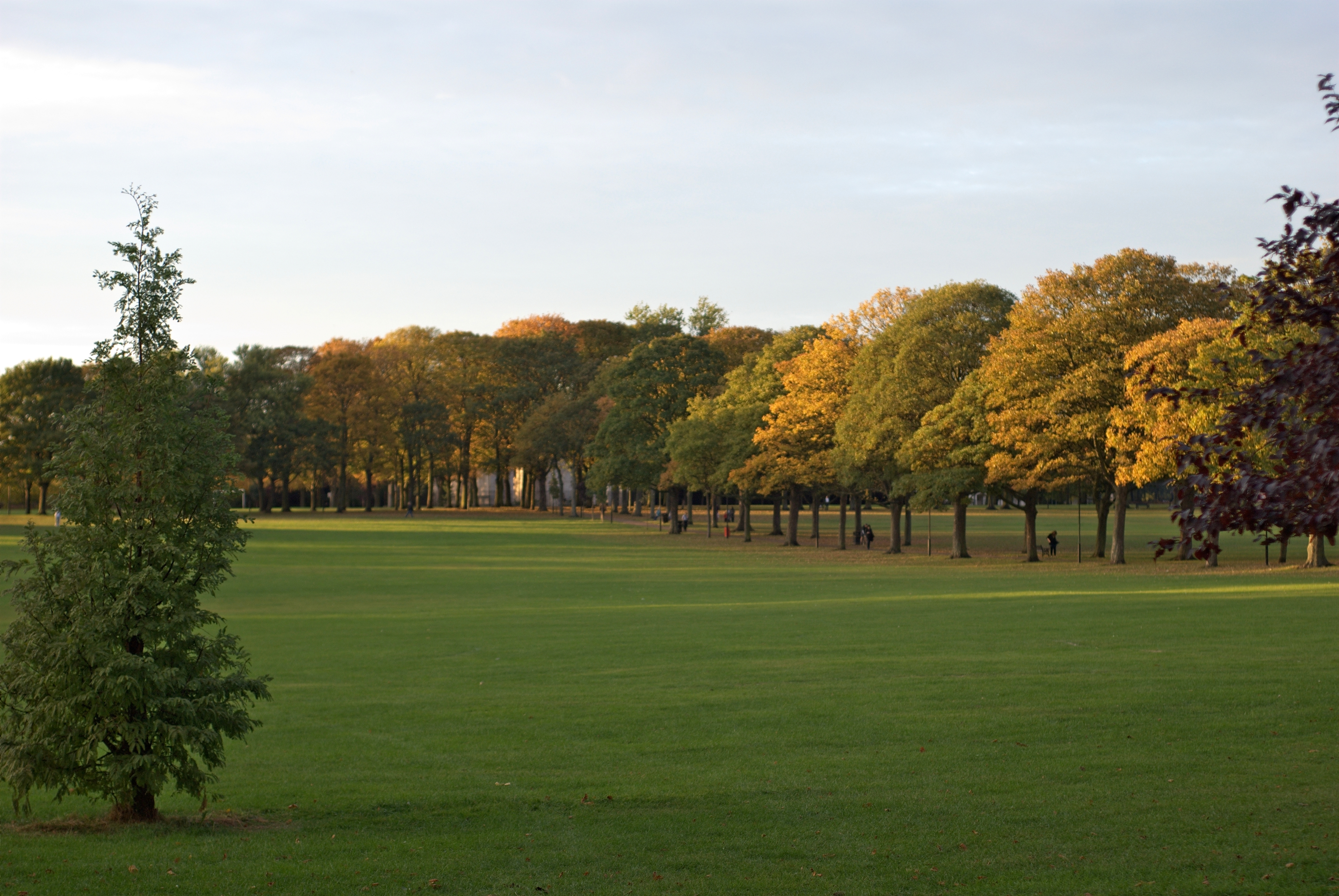 Victoria Park, looking NE from Queens Road.